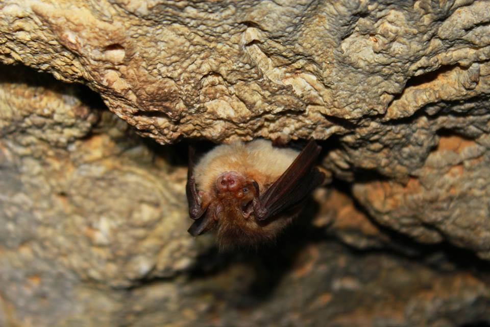 letuchaya mysh